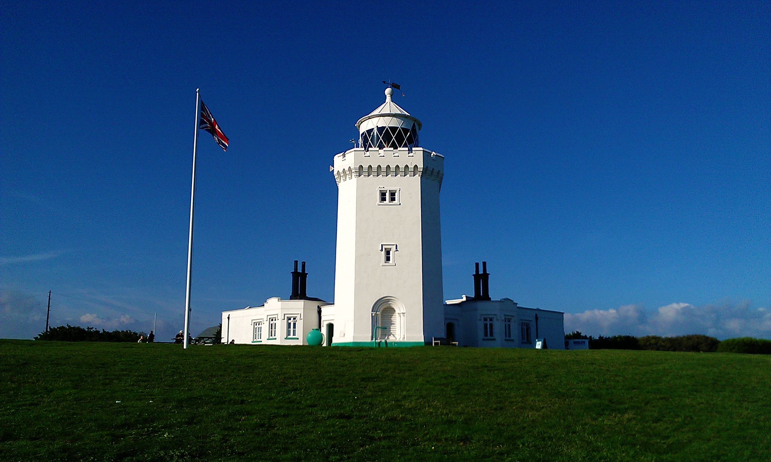 The front of South Foreland Lighthouse atop the White Cliffs of Dover near to Dover, Kent, in south-east England.